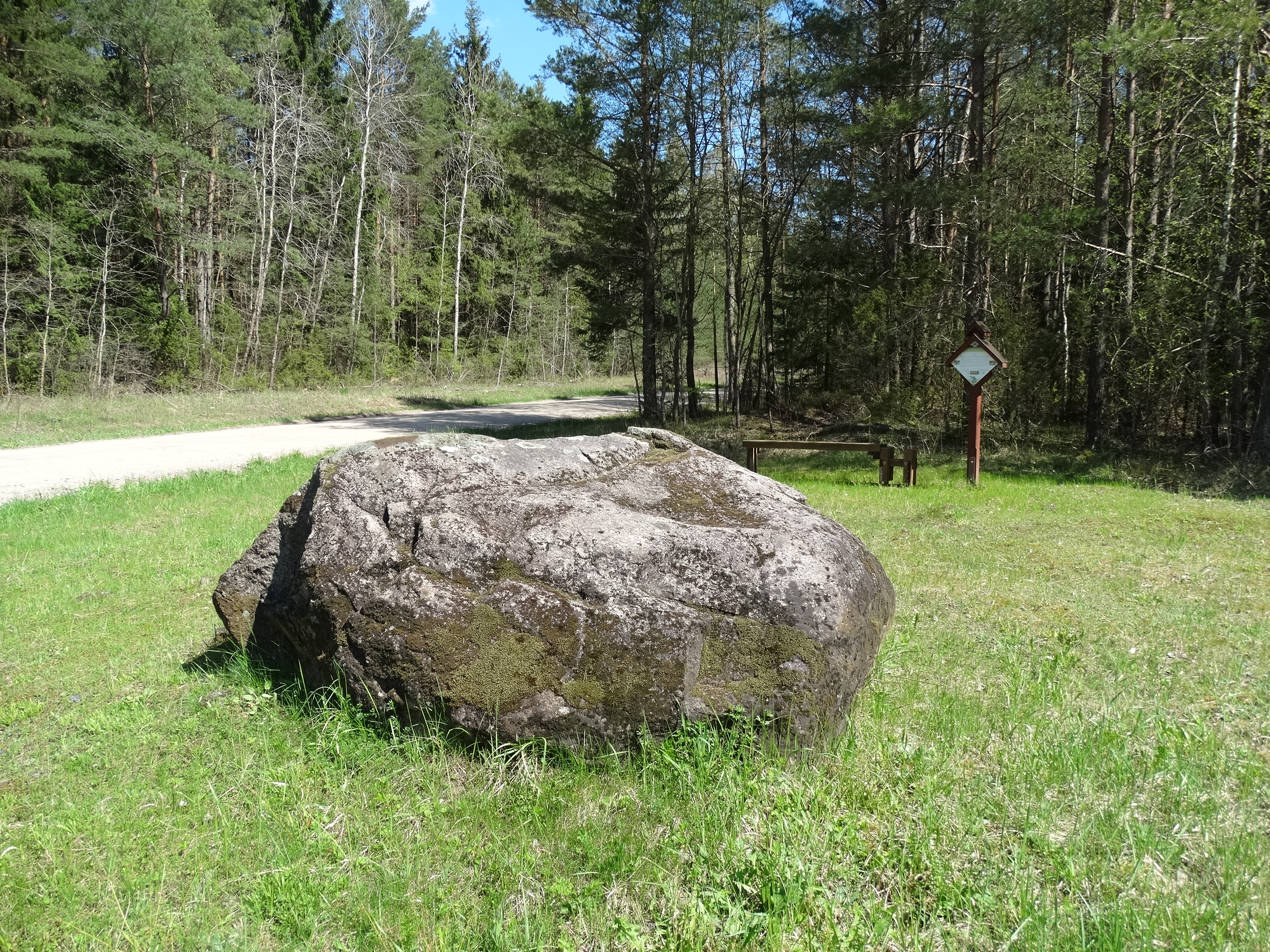 Stone by Dailidės, Šalčininkai District, Lithuania